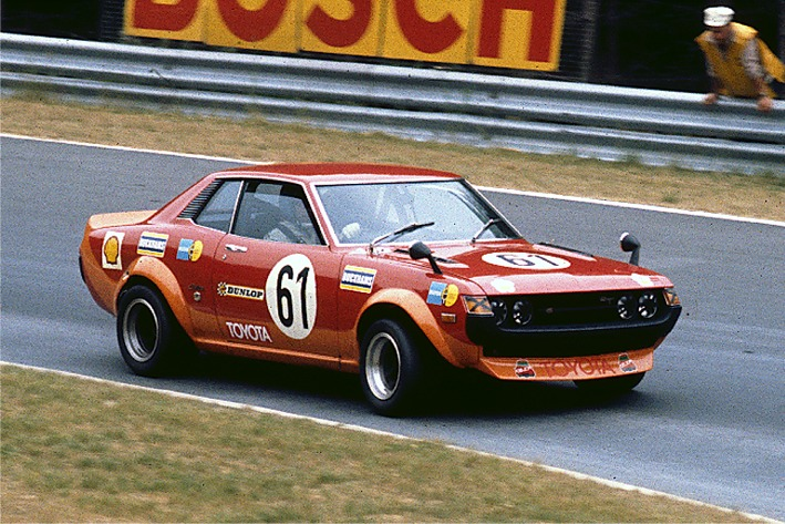 Toyota Celica Coupe 1600GT (TA22) von Freddy Kottulinsky und Ove Andersson